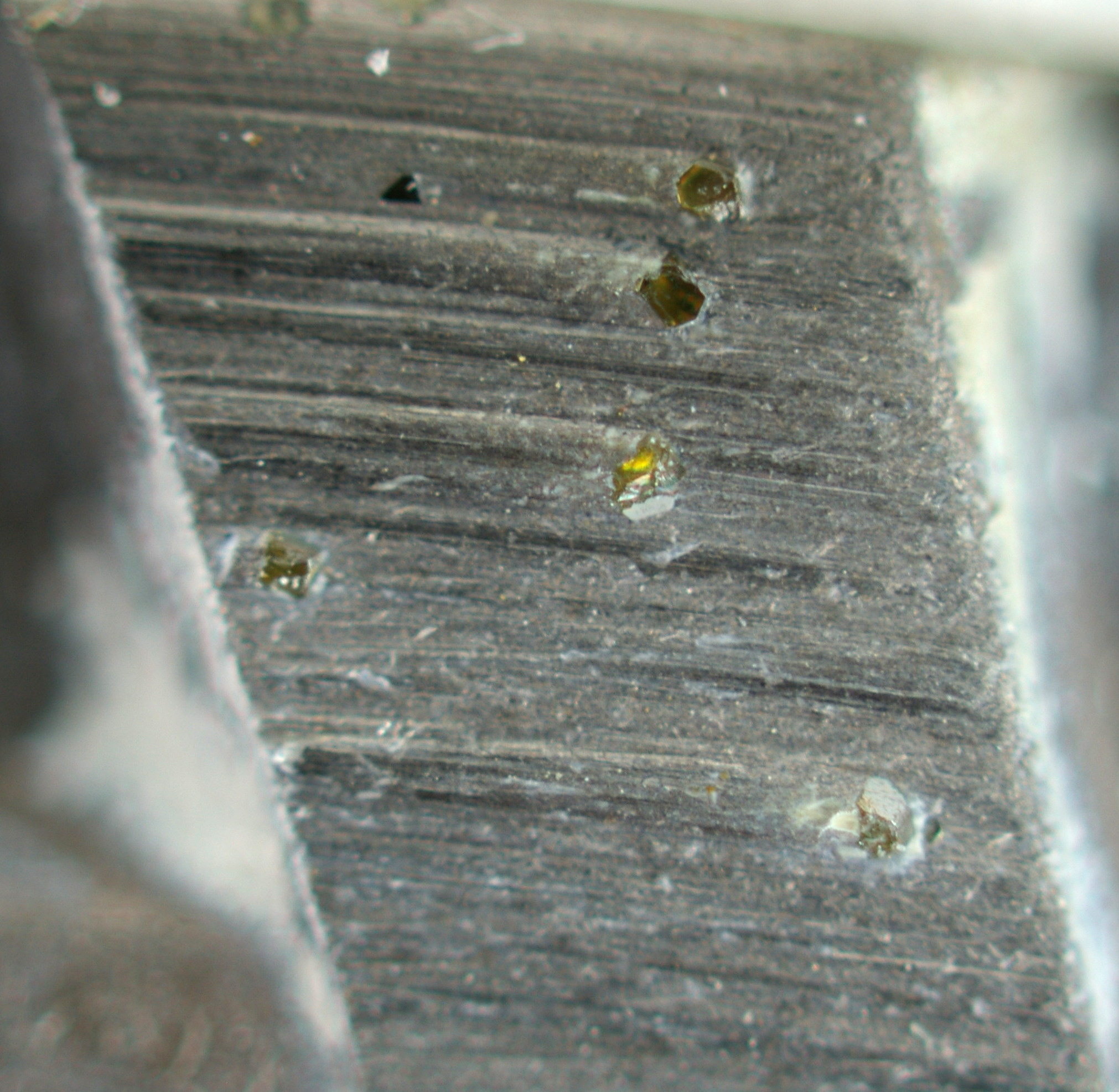 A very macro picture of a diamond blade. This is the same blade as File:Diamond blade macro.jpg, but with a close-up lens added to get a closer picture.